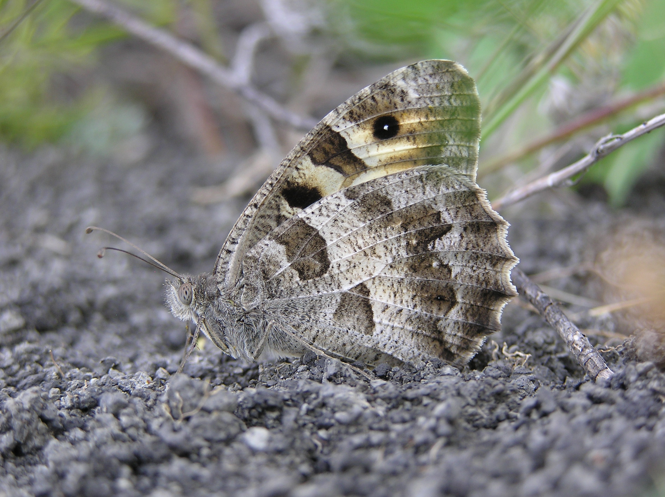 The Hermit (Chazara briseis L.), male. Vicinity of Saratov city, Russia.